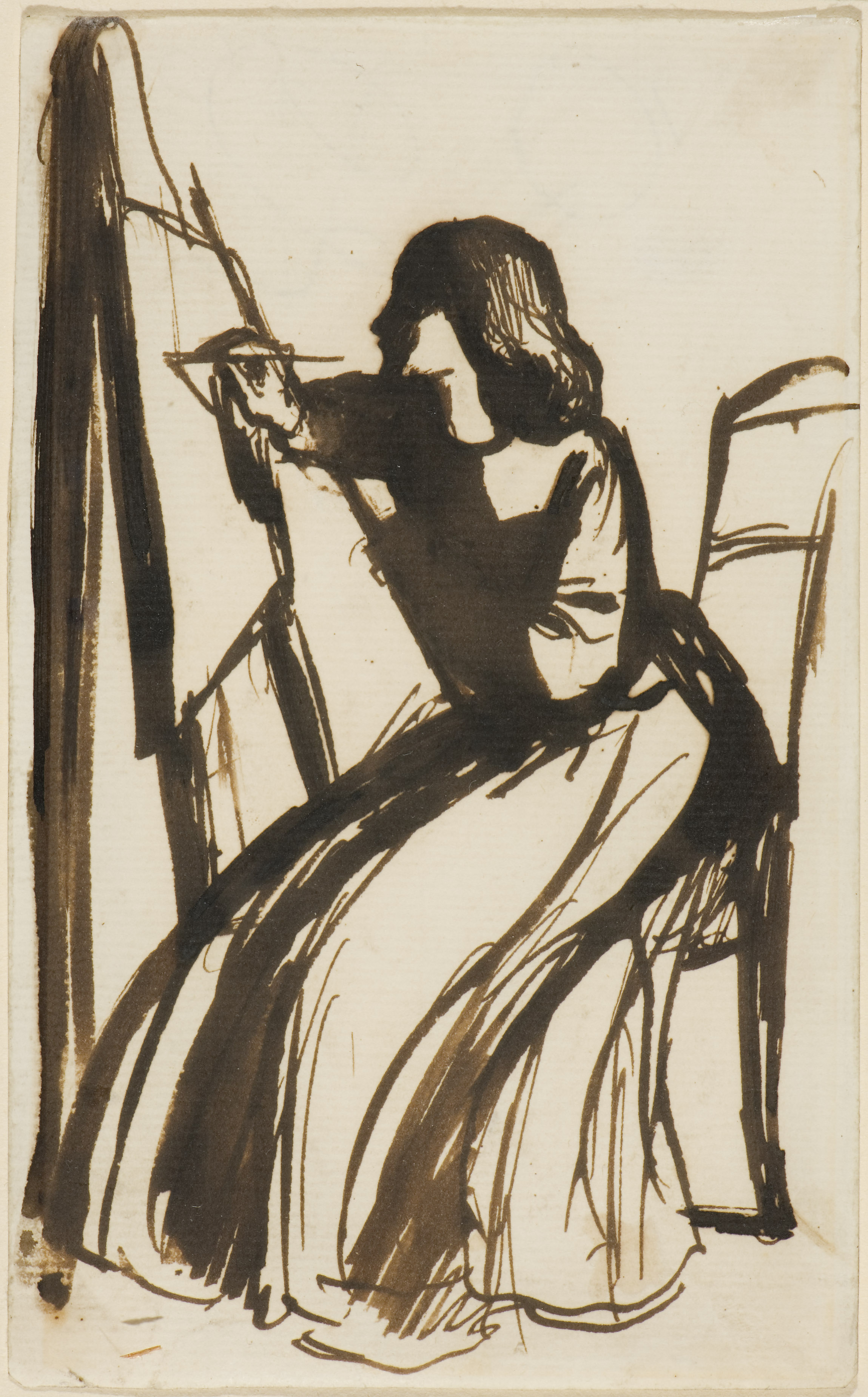 Elizabeth Siddal Seated at an Easel